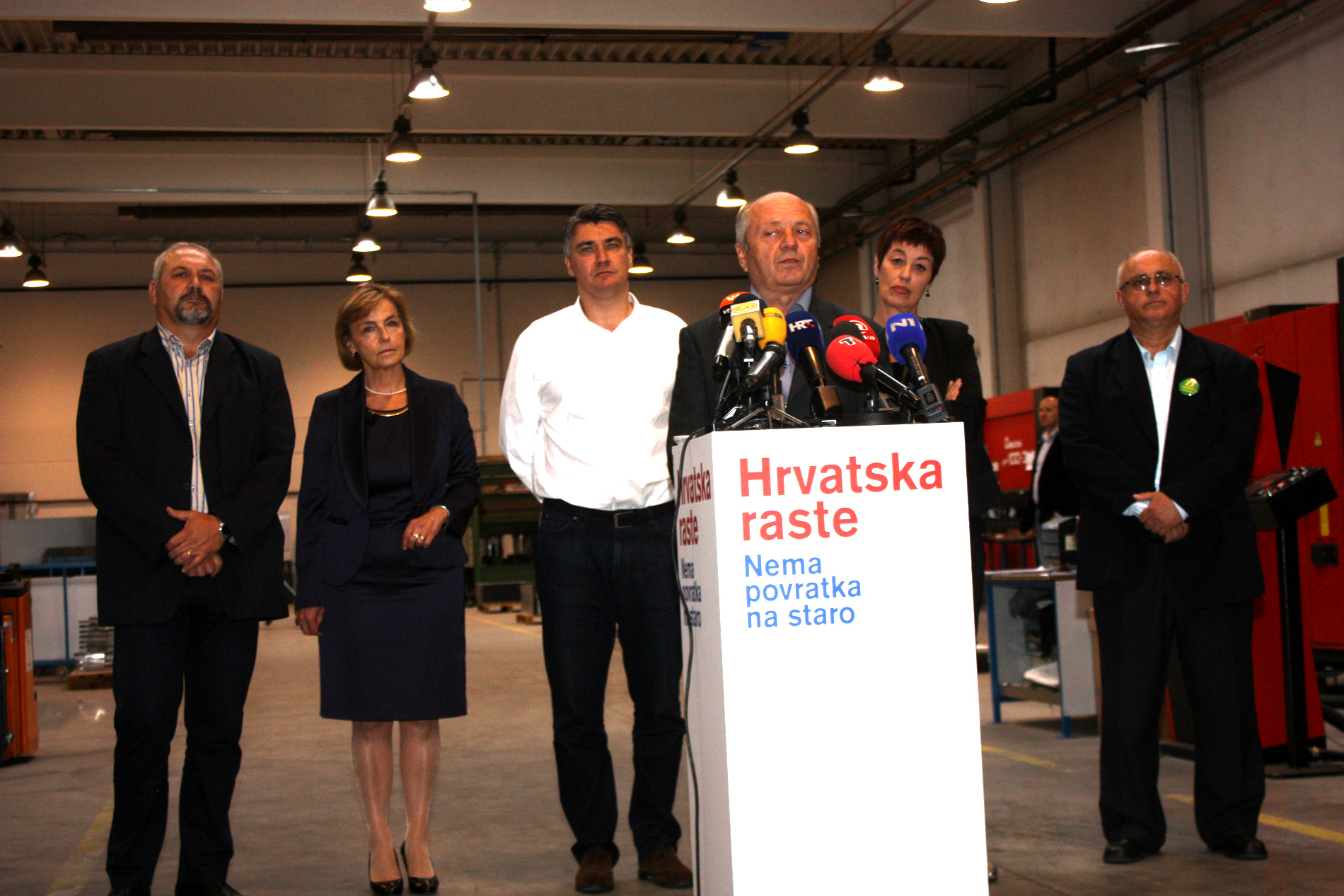 Jerneić, Hrelja, Pusić, Milanović, Tireli, Grčić signing coalition agreement, Croatia is Growing